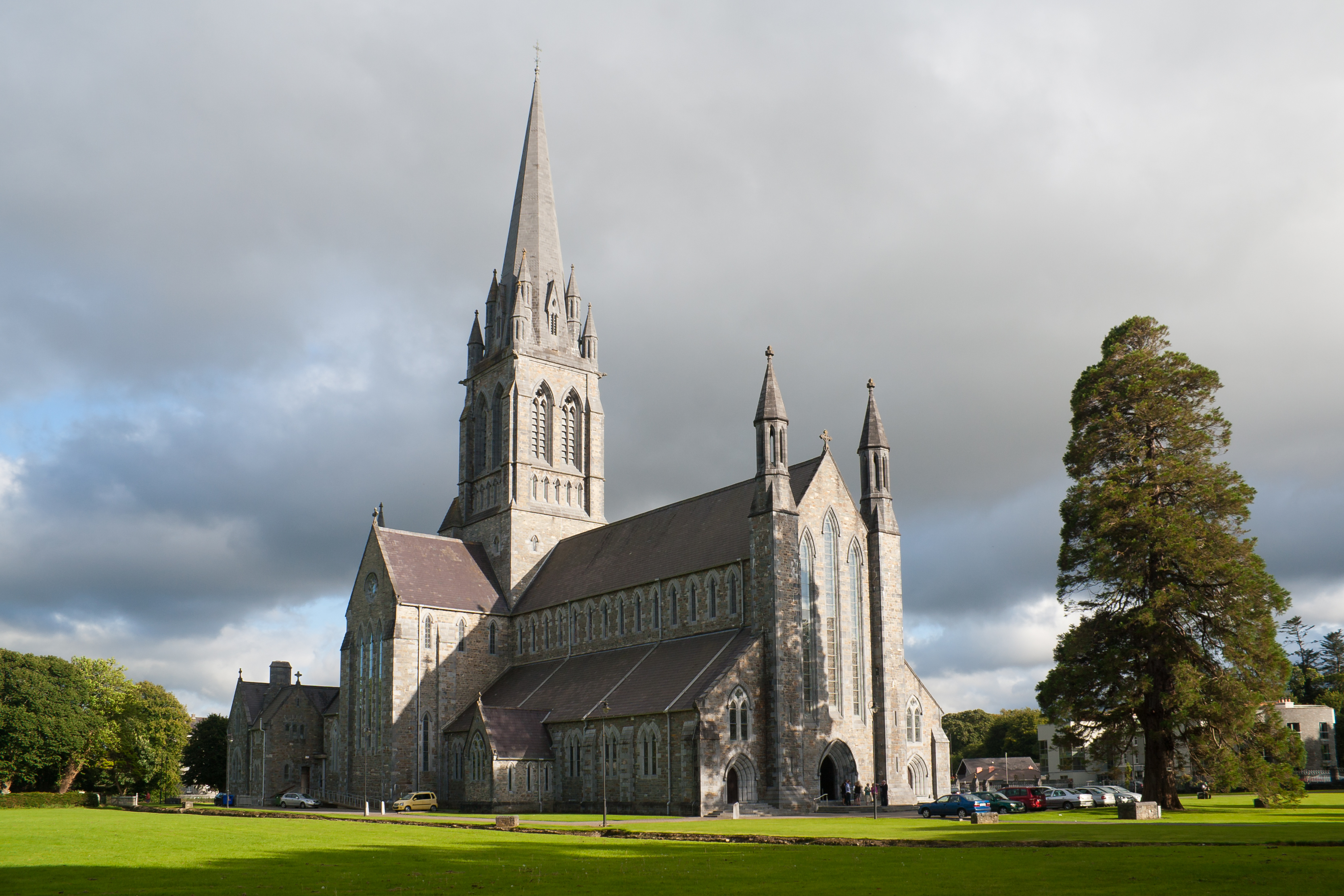 North-west view of Killarney Cathedral.